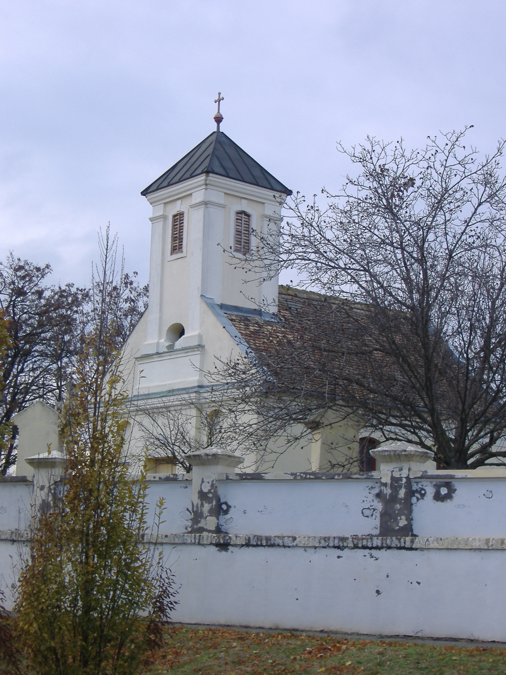 The Kálvária Chapel in Makó, Hungary.